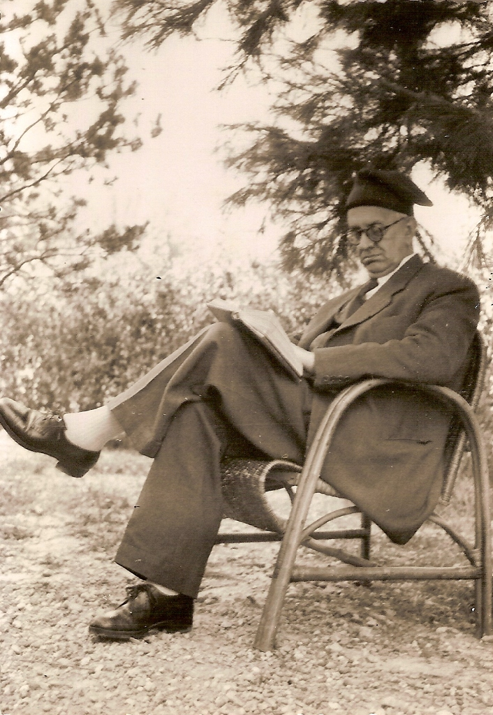 Photo of Manuel Brunet (catalan writer)